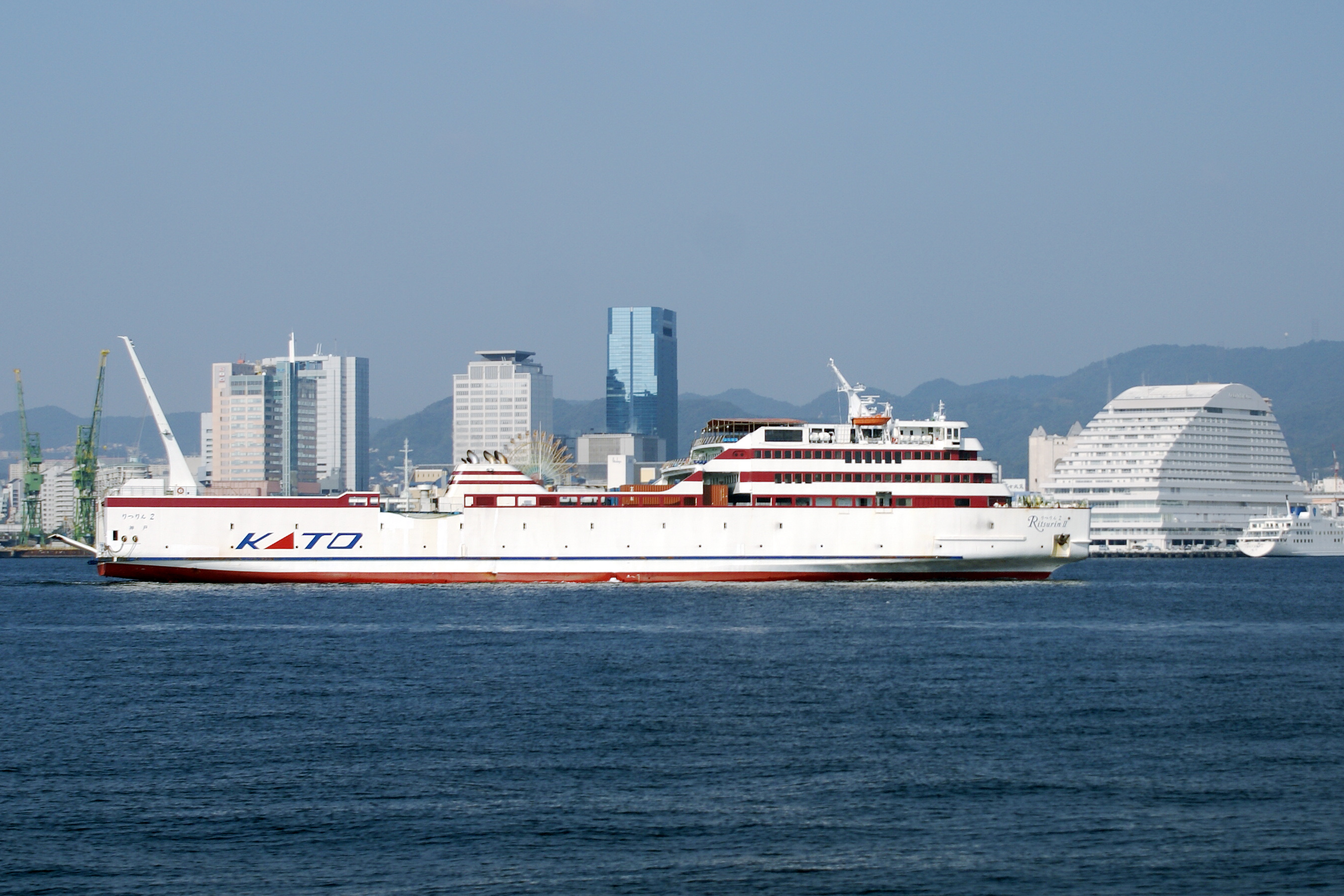 "Ritsurin2" at Shinko-tottei of the Kobe harbor in Kobe, Hyogo prefecture, Japan